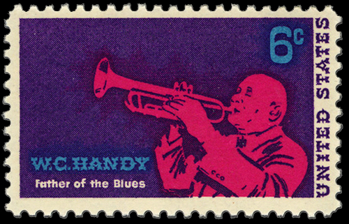 US postage stamp: 6-cent stamp honoring W. C. Handy was issued on May 17, 1969